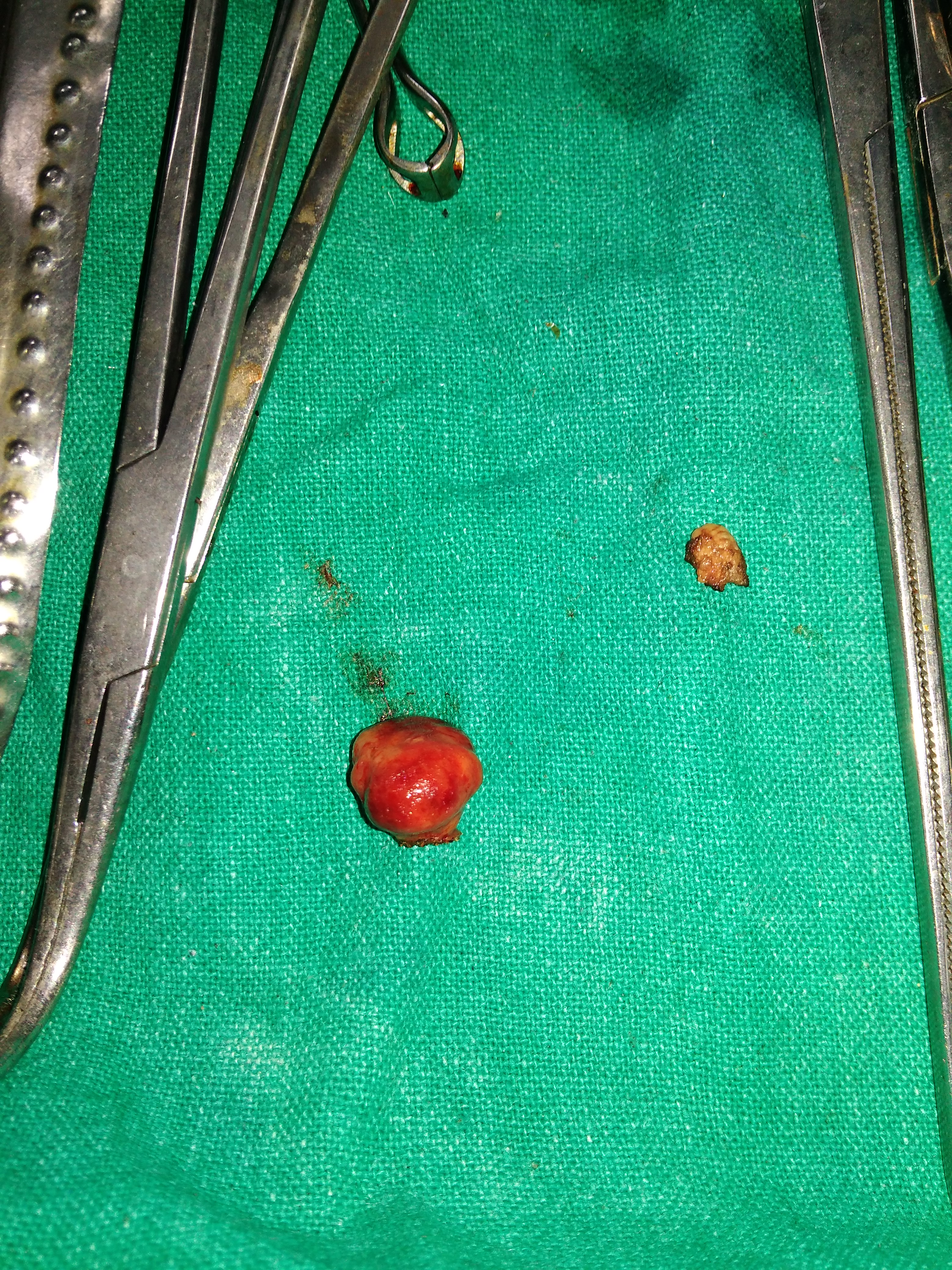 This is an image of a gastrointestinal stromal tumor resceted out from a 52 yrs old male patient from the 3rd part of the duodenum